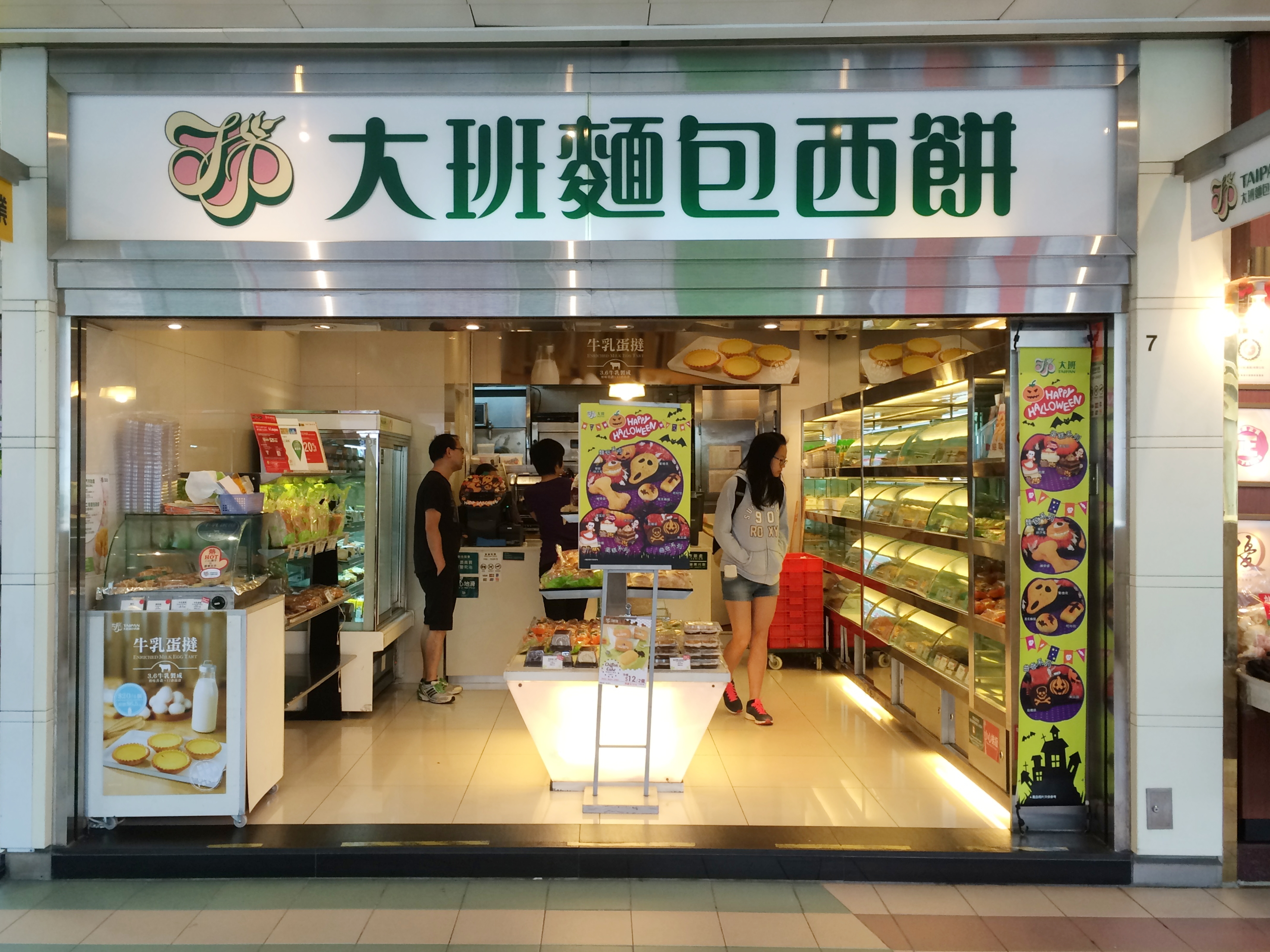 Taipan_Bread & Cakes in Shatin Centre